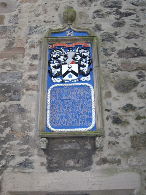 Plaque to Professor Henry Scougal (d.1678) See Henry_Scougal On the wall of Kings College, Old Aberdeen. 'Records of Old Aberdeen' states: On the south wall of the Chapel, on the outside, there is an inscription : 1 Above the inscription is a shield bearing, on a chevron, between a crescent in chief and a cinquefoil in base, a human eye. The motto is, Confido Sed Caveo. 2 A shield above has the bishop's arms, three bears' heads couped and muzzled with a passion cross at fess point. [I see no bears!]. 3 For an account of the heraldic representations on this wall and on other parts of the College buildings, see Proceedings of the Society of Antiquaries of Scotland, Vol. xxiii. p. 80. [Not to hand] Is the present plaque I wonder, a replacement for the original? Or else does the above description refer to another plaque commemorating HS's father who was the Bishop of Aberdeen for 20 years?